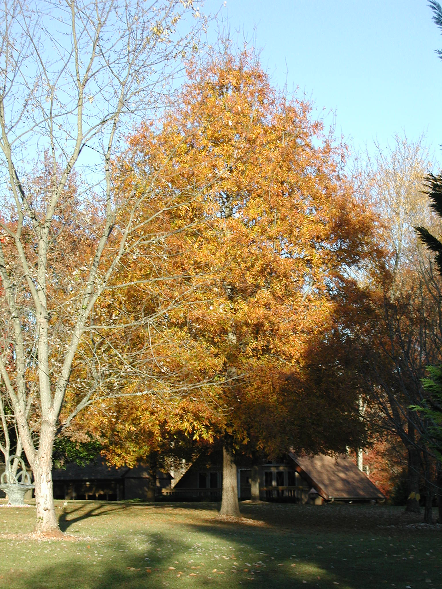 Willow Oak in autumn foliage.